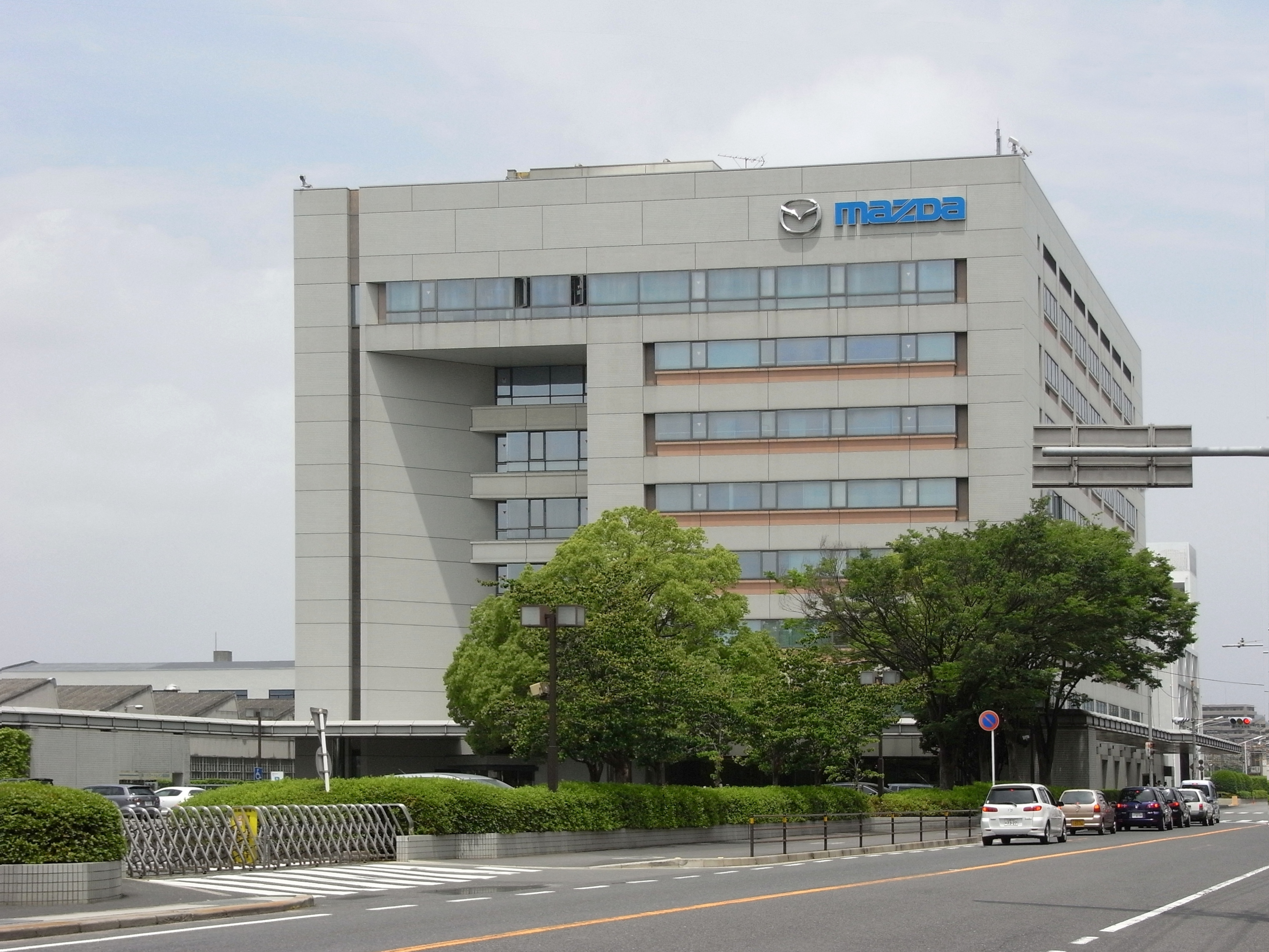 Mazda head office (マツダ本社)